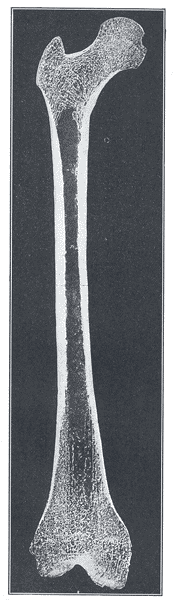 Frontal longitudinal midsection of left femur. Taken from the same subject as the one that was analyzed and shown in Figs. 248 and 250. 4/9 of natural size. (After Koch.)